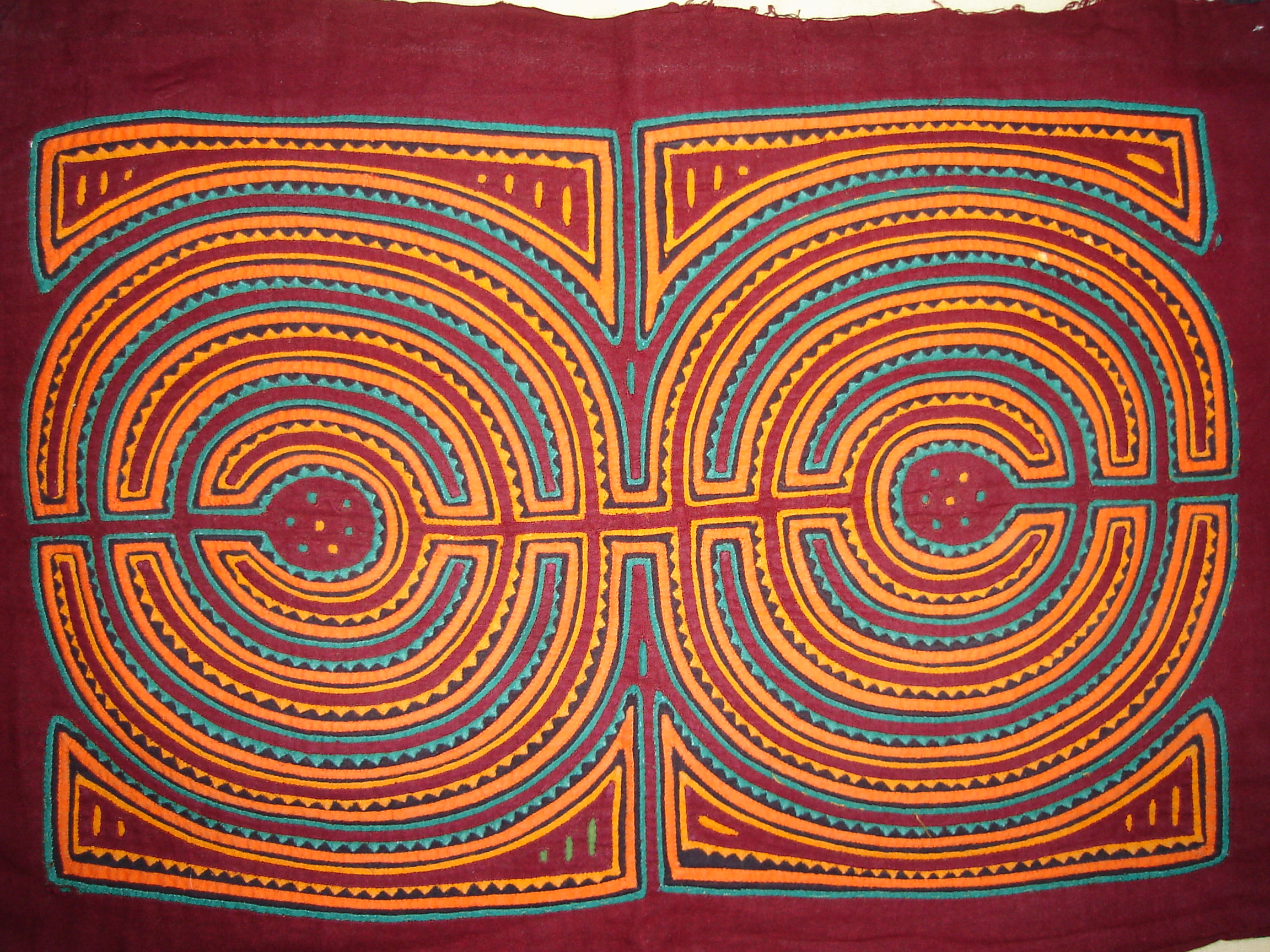 This is a mola made by a Kuna woman from Panama. It represents the olazu, a traditional nose ring worn by the Kuna. This mola was purchased in Panama City in 2005.